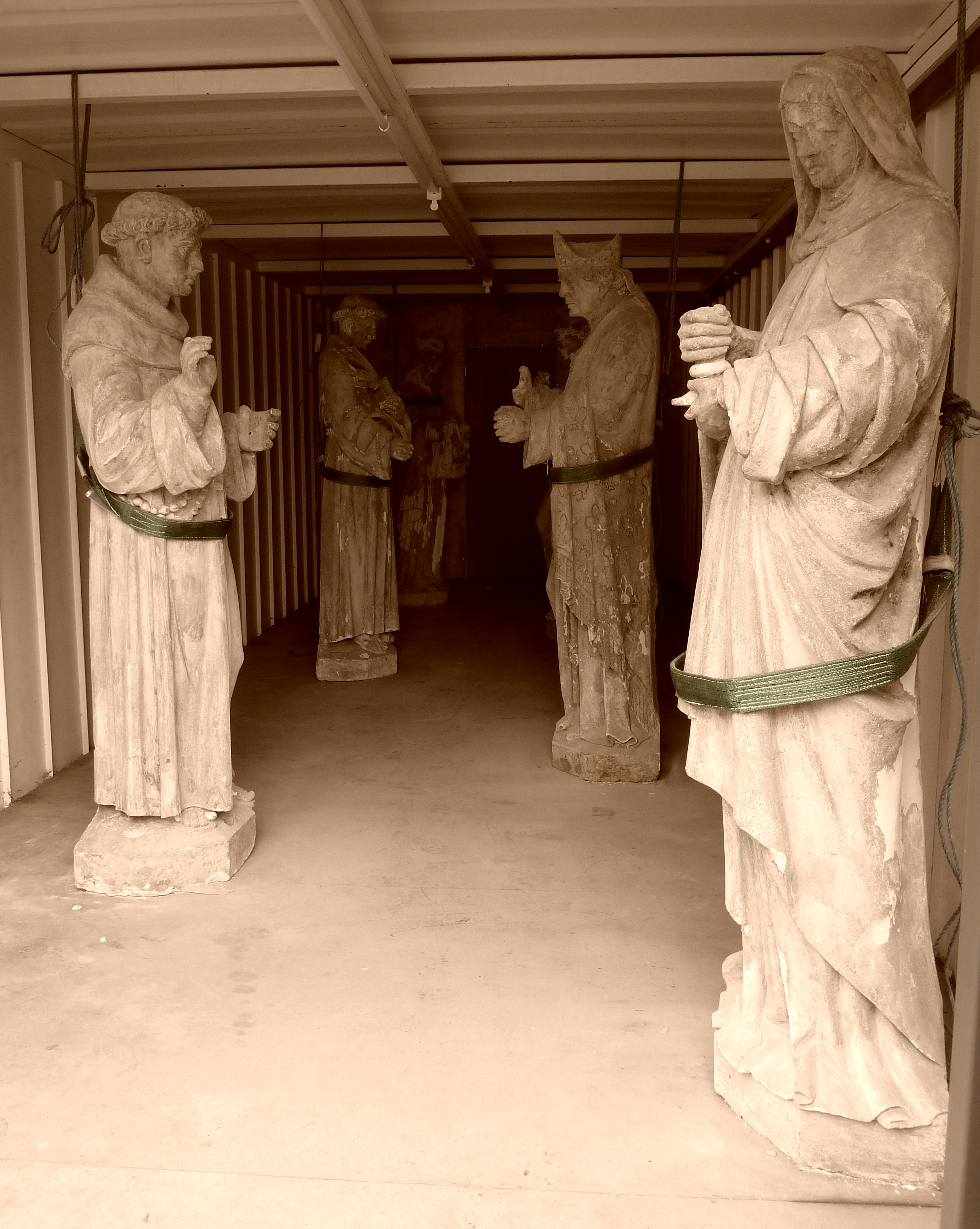 Statues of saints from Gorton Monastery, carved in the 19th century to be fixed on plinths high on the walls of the nave. They were removed by developers in the late 20th century but rescued from auction. This set of photographs shows the saints under restoration and temporarily held in containers. These statues represent Franciscan saints, but the stonemason appears to have used models from Gorton Monastery itself. The figures are in natural and relaxed poses, and could be praying, meditating and reading while leaning against walls, as did the real-life monks at Gorton.